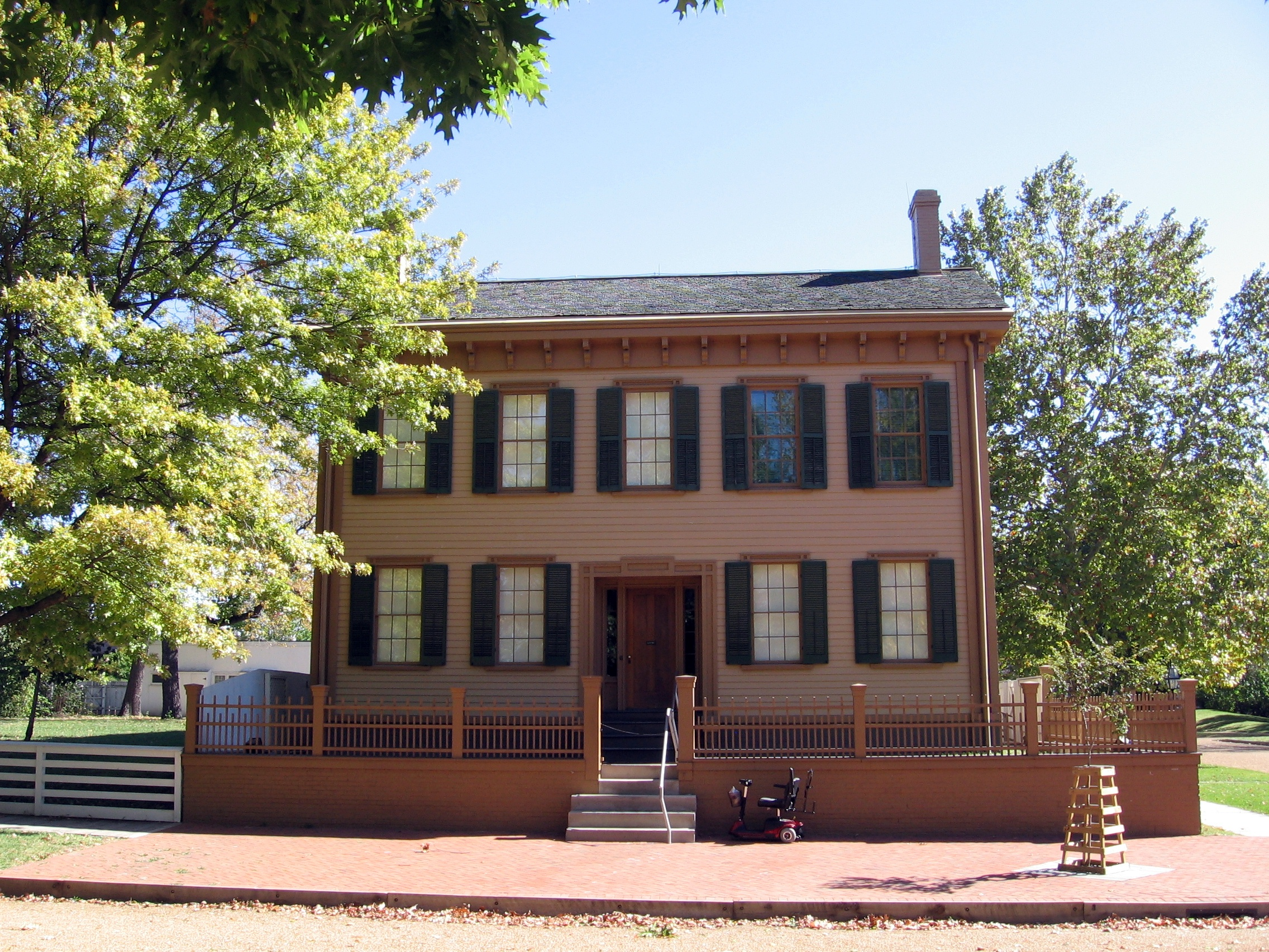 Picture of the Lincoln Home. This was taken with a Canon Powershot A520